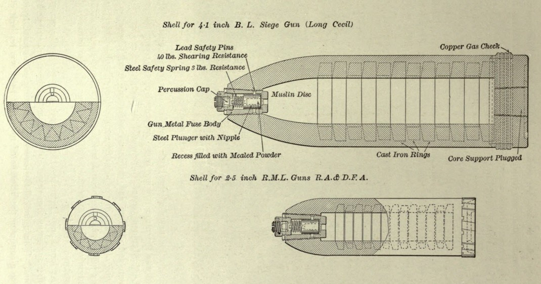 George Labram leaning on Long Cecil, as published in "Cassell's History of the Boer War, 1899-1902 by Richard Danes"